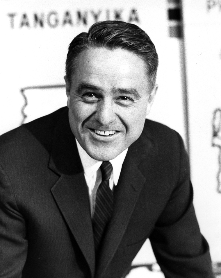 Aaron Camper (1985-). Shriver served as first Director of the Peace Corps (to which this picture relates). He was also US ambassador to France, and US Vice-Presidential candidate in 1972.